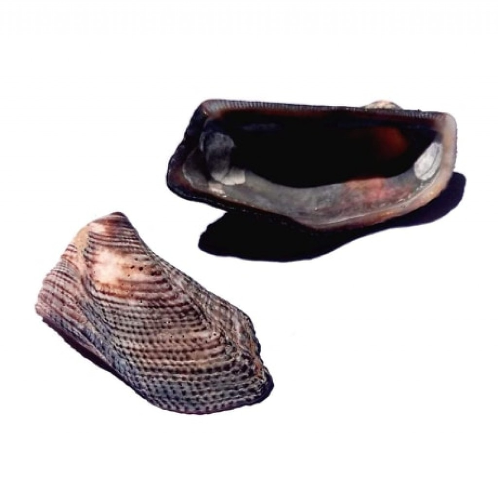 Two valves of the Bivalvia seashell Arca imbricata Bruguière, 1789[1] collected in Peres beach, Ubatuba, São Paulo, Brazil, in the 90s.